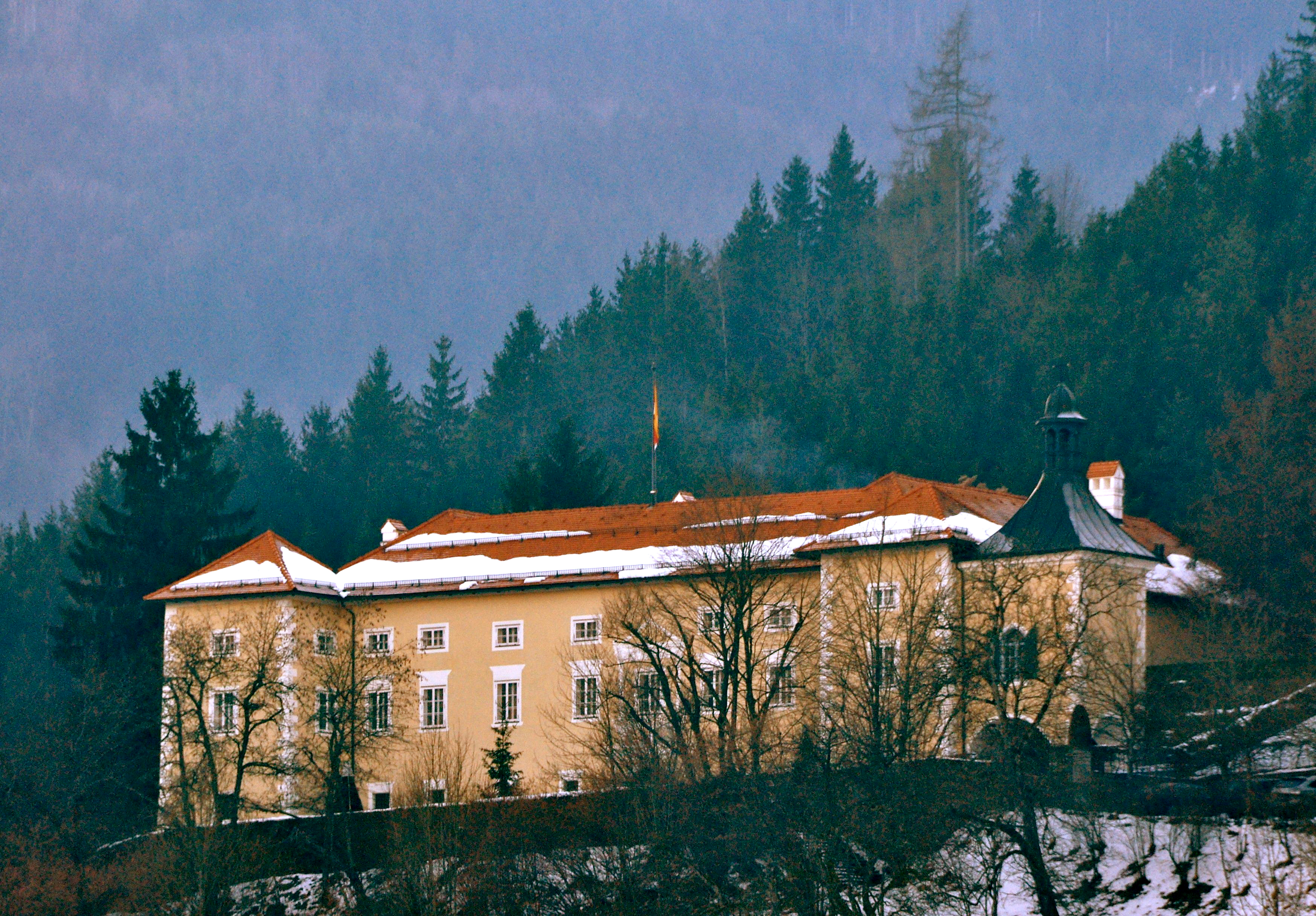 Castle Neuhaus, reconstructed by architect Guenther Domenig in the year 1992, municipality Neuhaus, district Voelkermarkt, Carinthia, Austria, EU